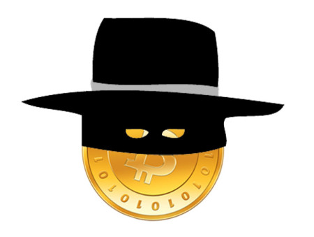 Bitcoin anonymity